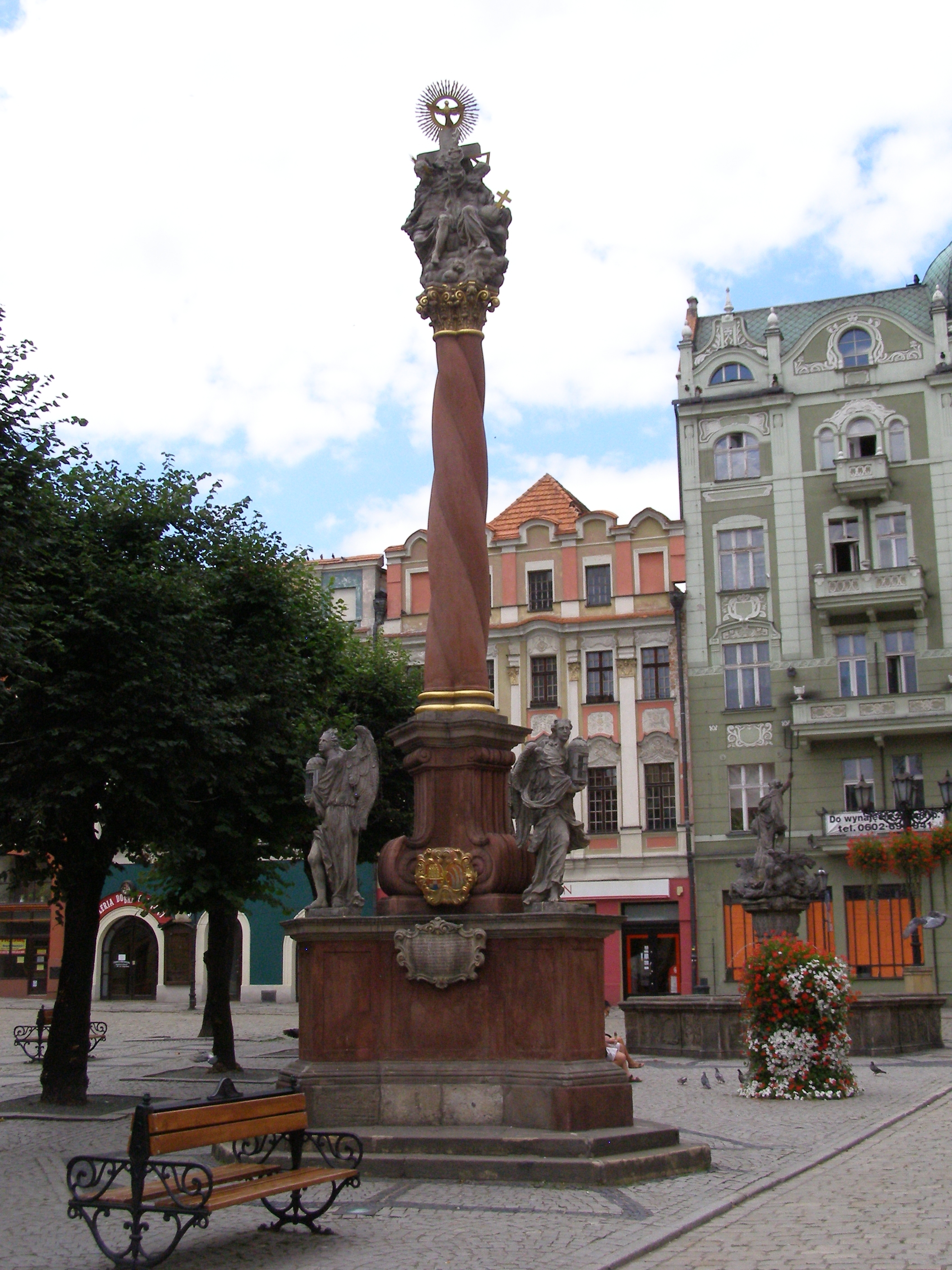 Świdnica - Holy Trinity column